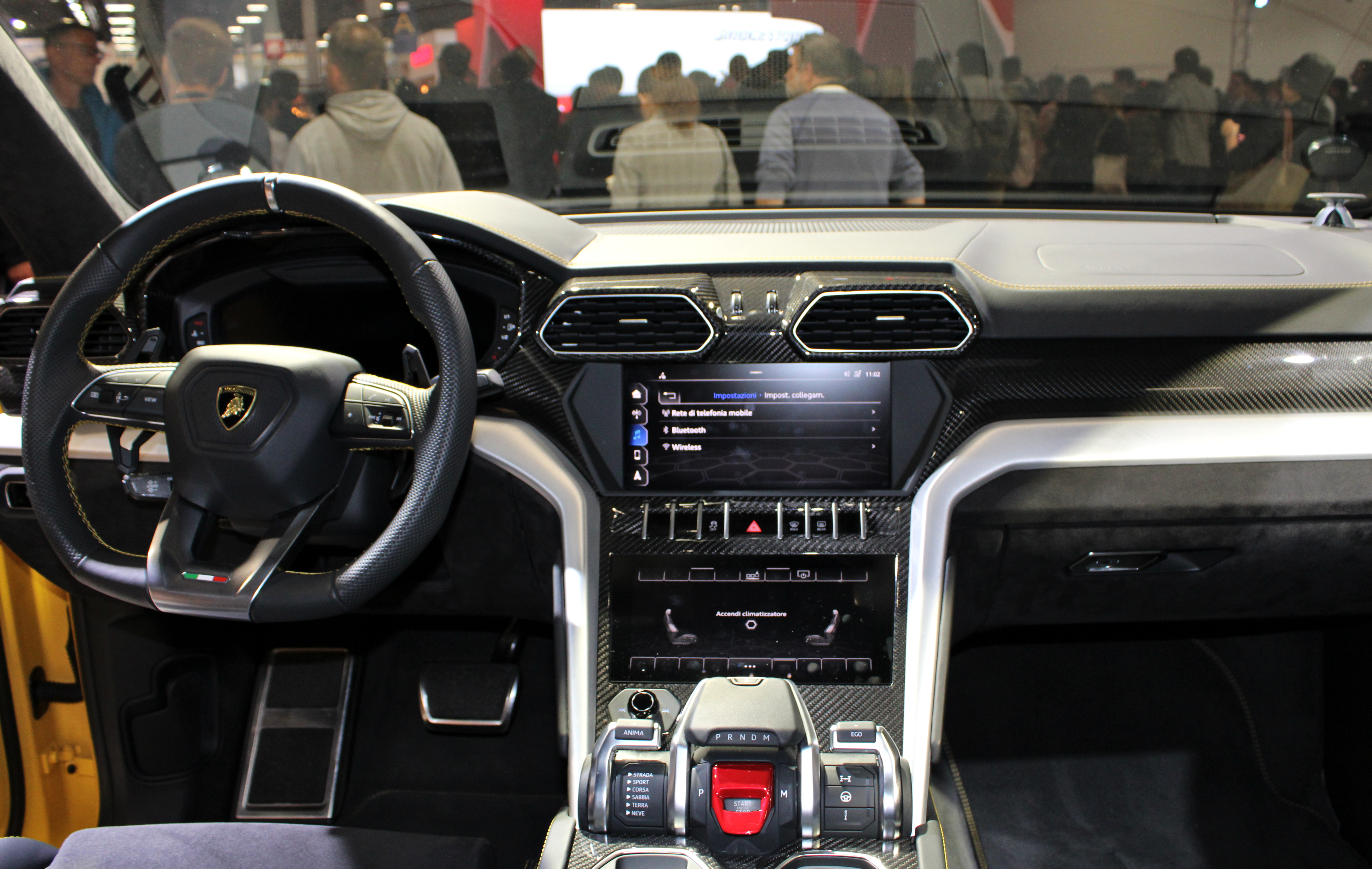 Lamborghini Urus at Paris Motor Show 2018